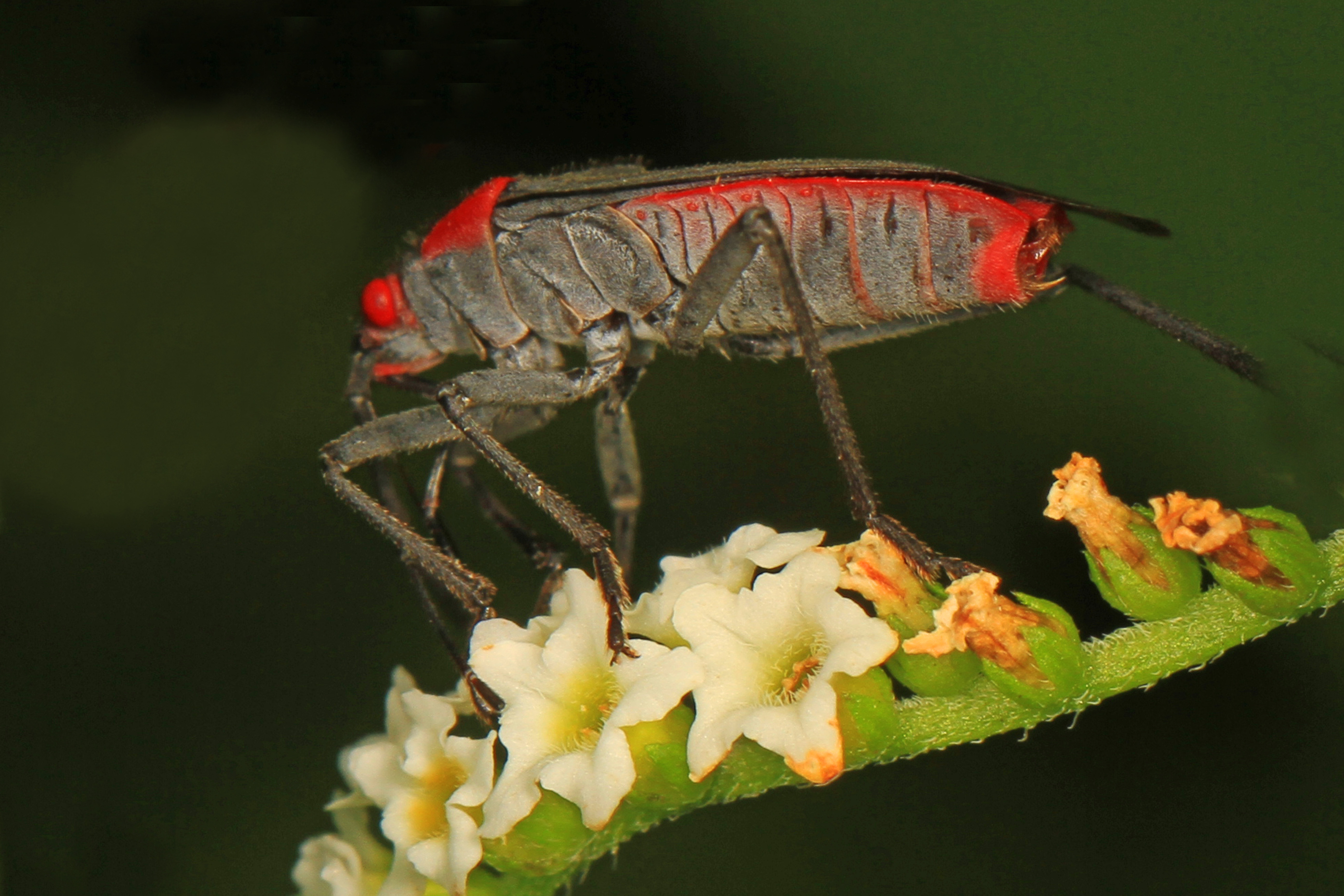 Red-shouldered Bug - Jadera haematoloma, Everglades National Park, Homestead, Florida